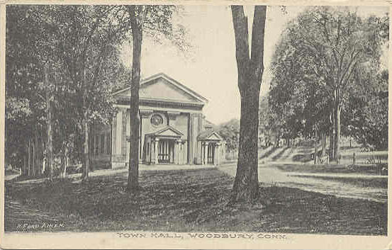 Postcard: Town Hall, Woodbury, Connecticut, 1907 postmark Caption: "TOWN HALL, WOODBURY, CONN." Description: Black and white photograph; store Web page states, "1907 postally used divided back postcard pub by H. Ford Aiken"